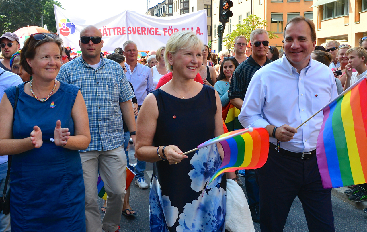 Social Democrats in the final Pride Parade during Stockholm Pride in 2014. Carin Jämtin, Margot Wallström, Stefan Löfven (party leader).